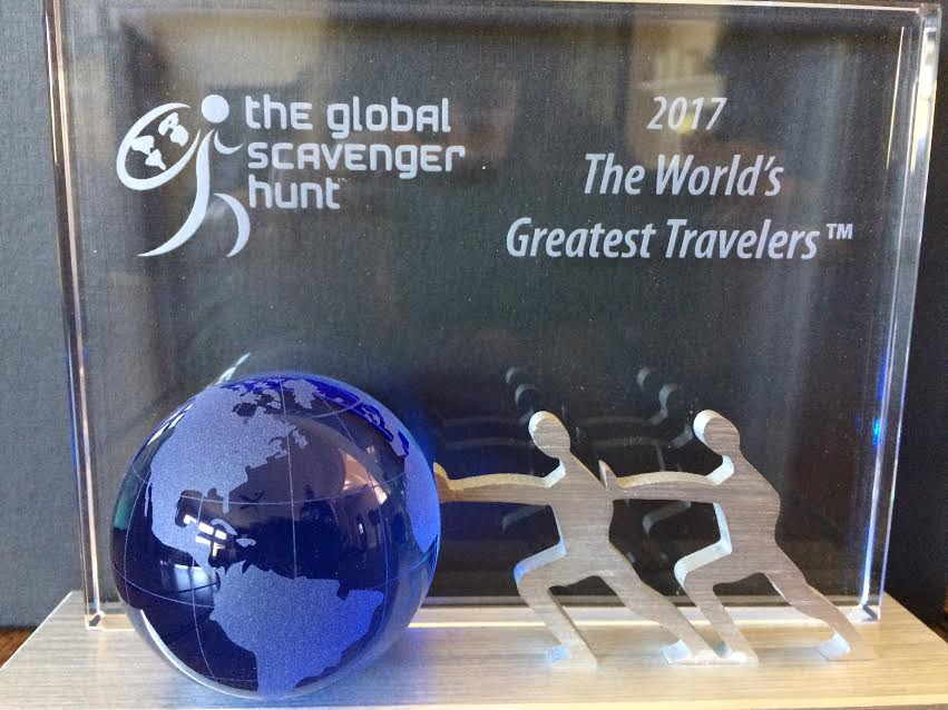 the trophy for the global scavenger hunt event